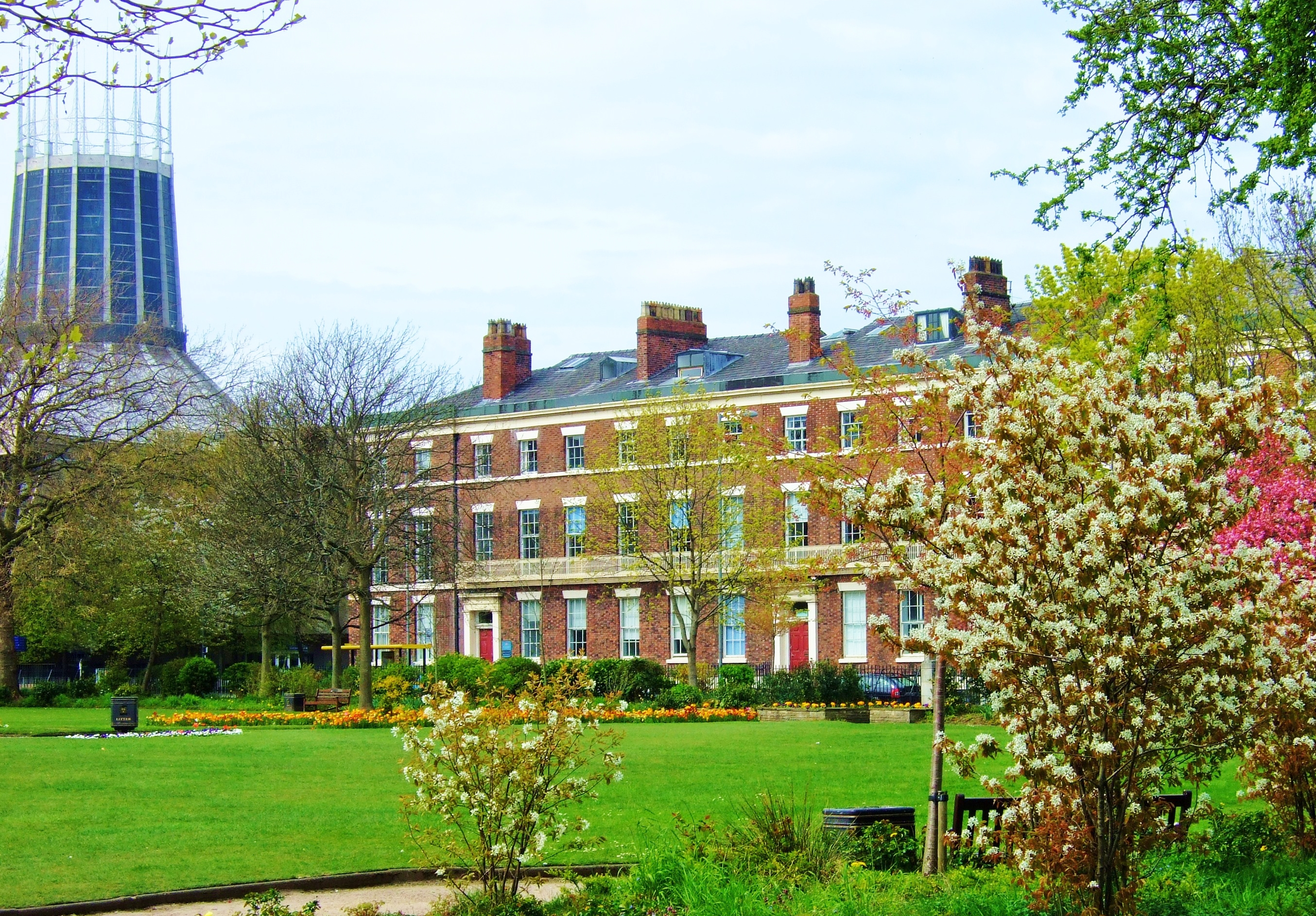 Looking north-west over Abercromby Square Gardens